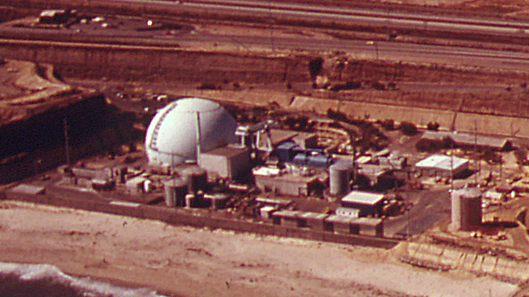 San Onofre Nuclear Generating Station in San Diego County, California in June 1975. The round, white reactor to the left, dubbed "Unit 1", is a 456 MWe first generation Westinghouse pressurized water reactor.